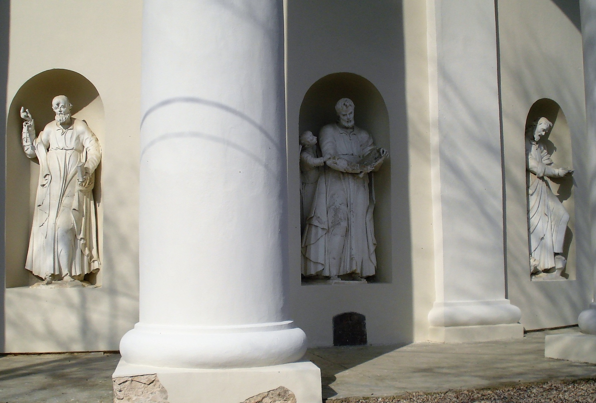 Sculptures by Ignacy Gulman or Pulman 1817–1820